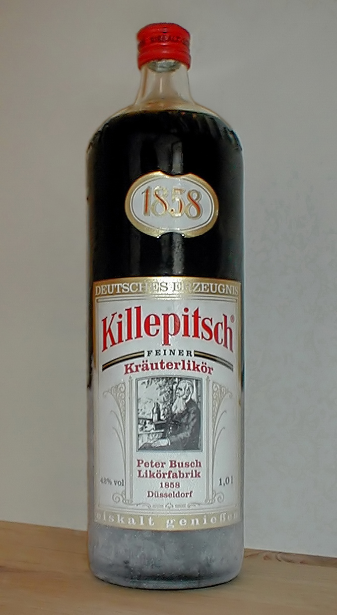 Bottle of icecold Killepitsch, hard liquor from Düsseldorf, Germany.